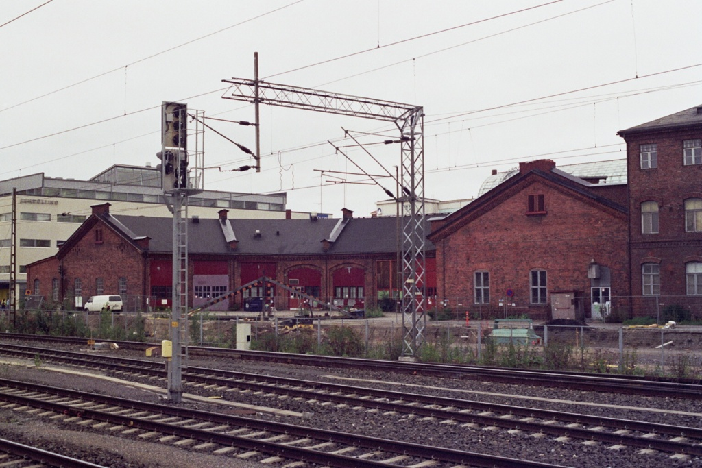 A former engine shed at the railway station of Tampere in Finland.